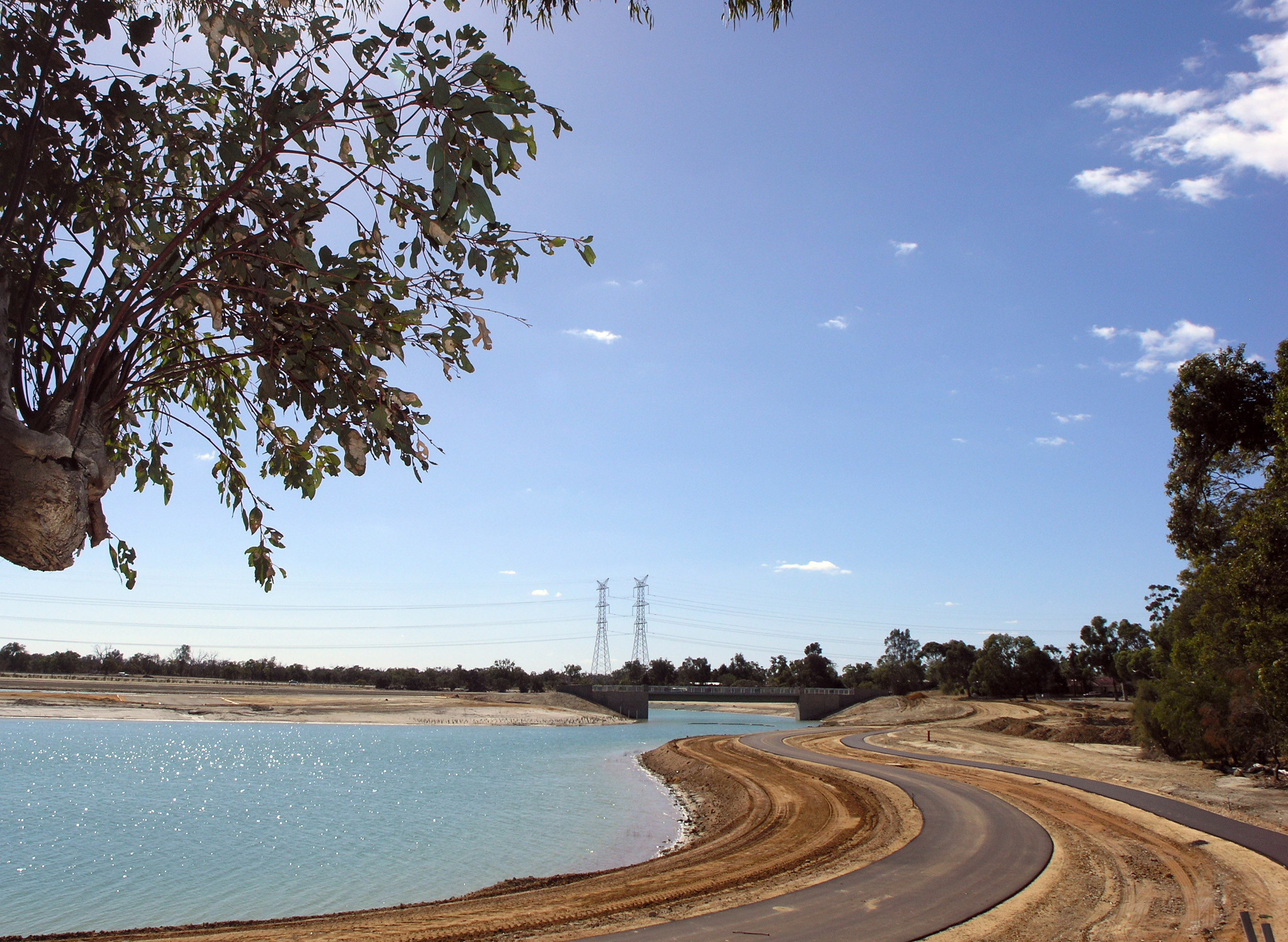 Taken by myself with an Olympus C8080W in March 2007 in Champion Lakes,Perth, Western Australia; before completion of a new water-based recreation facility. Taken & uploaded for Champion Lakes, Western Australia